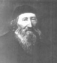 Zvi (Zwi) Hirsch Kalischer (March 24, 1795 - October 16, 1874) - an Orthodox German rabbi and one of Zionism's early pioneers in Germany.